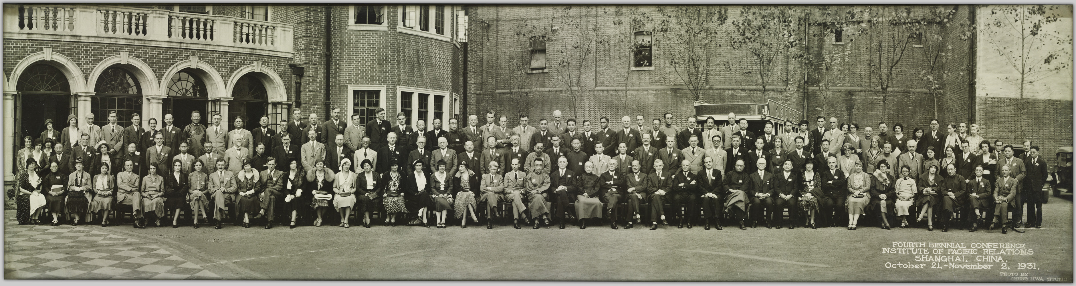 No known copyright restrictions. Please credit UBC Library as the image source. For more information, see Creator: Unknown Date Created: 1931 Source: Original Format: University of British Columbia. Archives. Institute of Pacific Relations fonds. Permanent URL